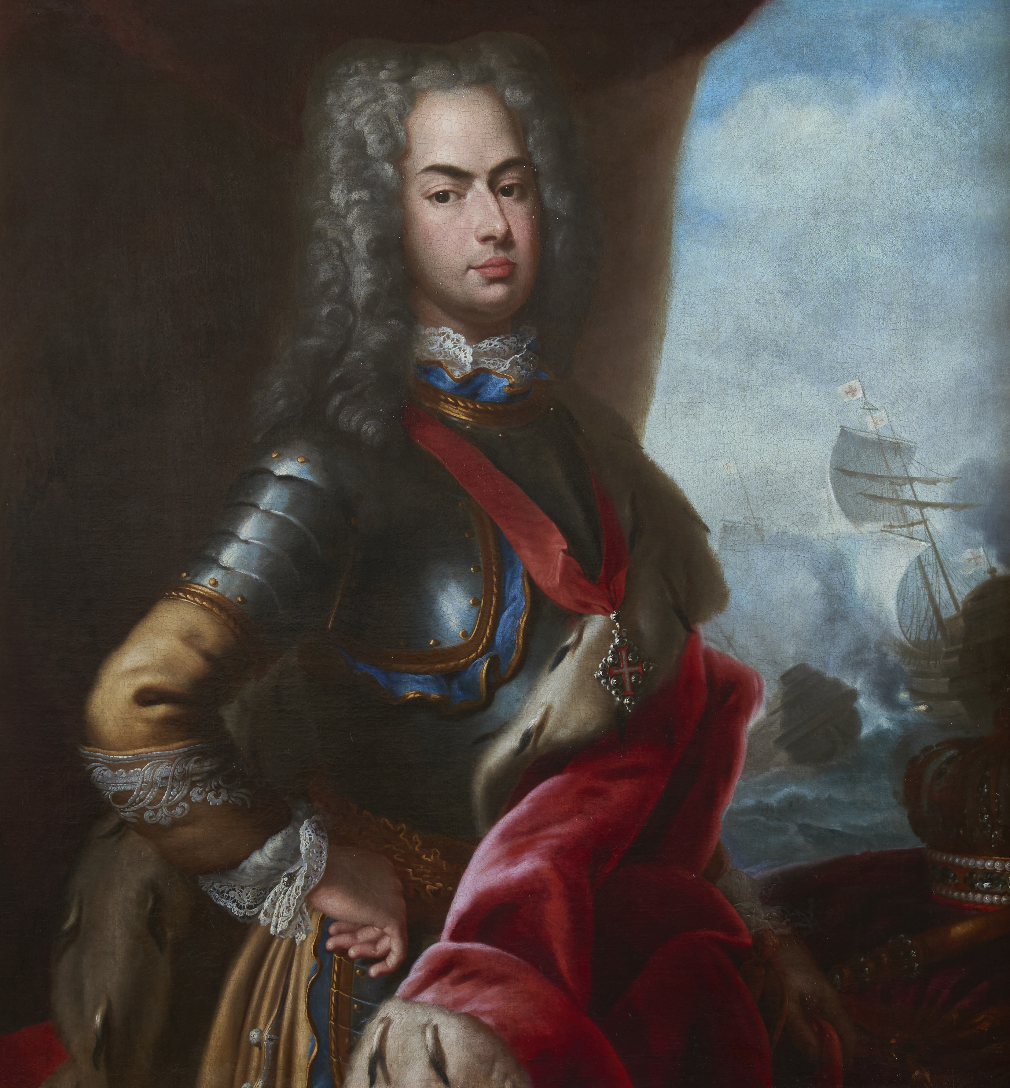 Portrait of King John V of Portugal alluding to the Battle of Cape Matapan